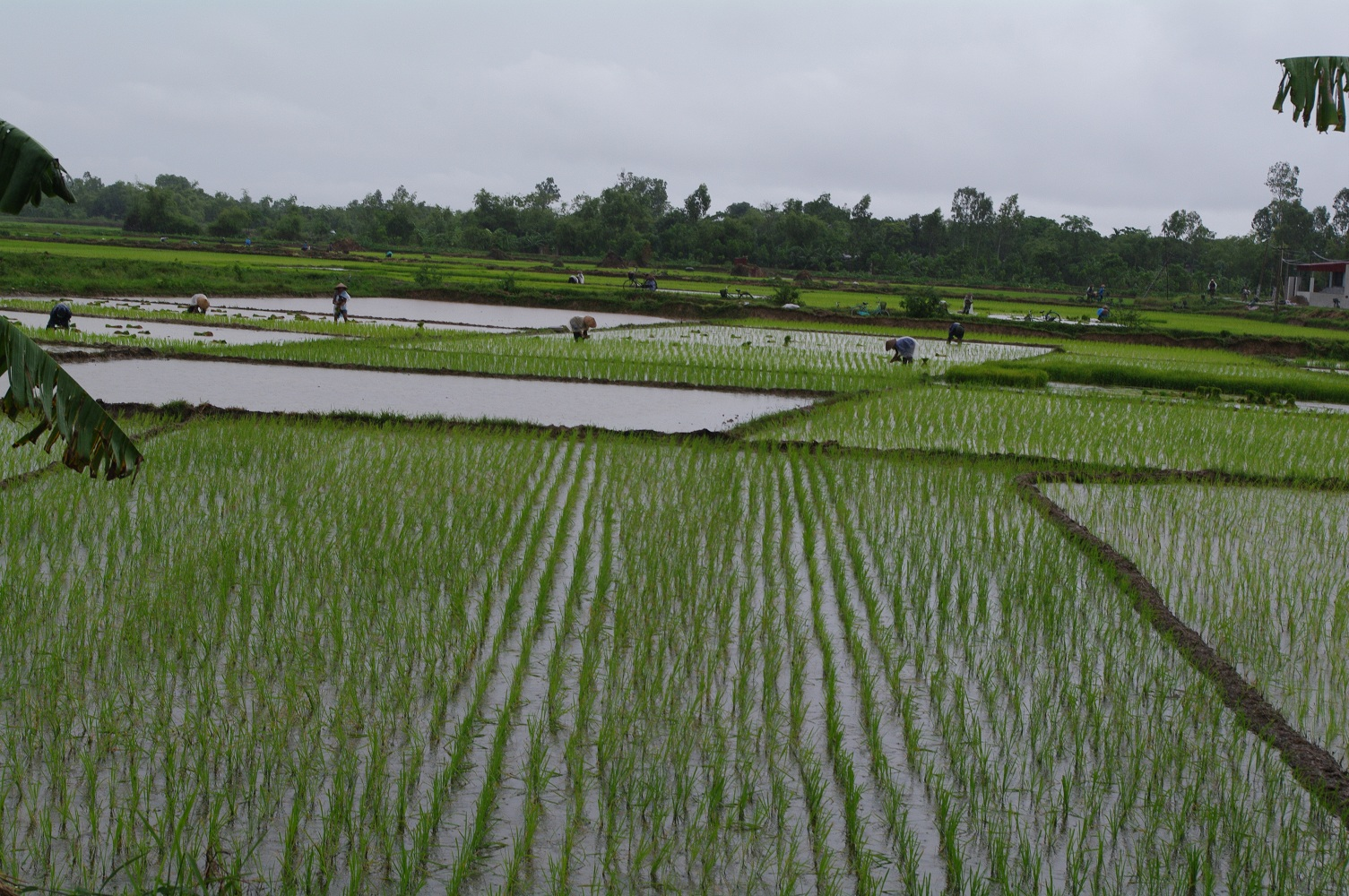 Rice field in Vietnam Photo by: Mohri UN-CECAR